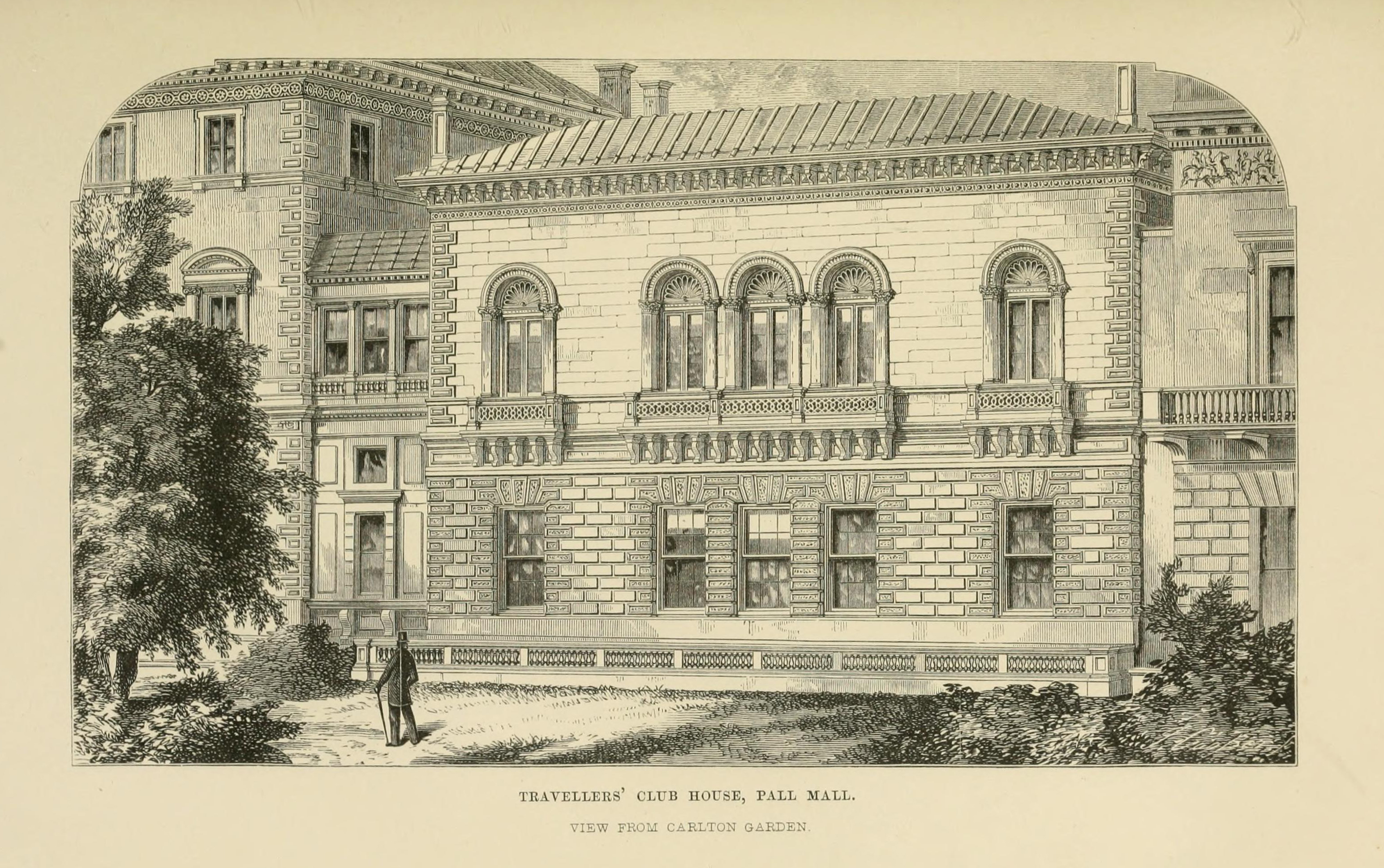 Travellers Club house. Pall Mall.